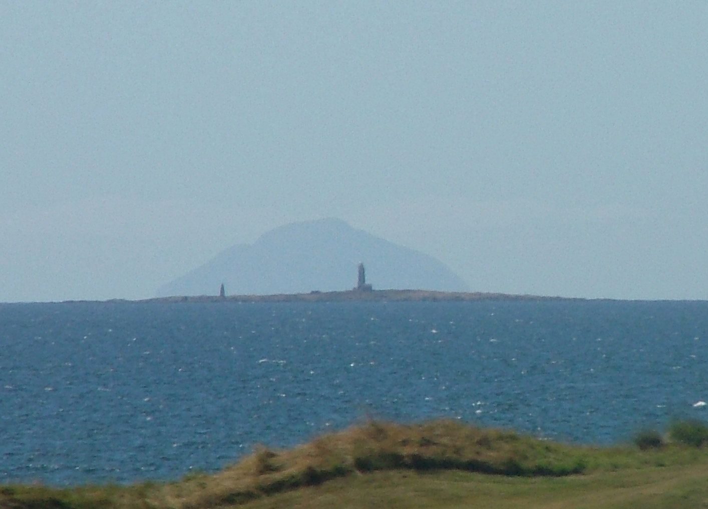 Lady Isle photographed from the mainland just to the north of Troon. Note Ailsa Craig in the background. Picture taken by me in the summer of 2005.